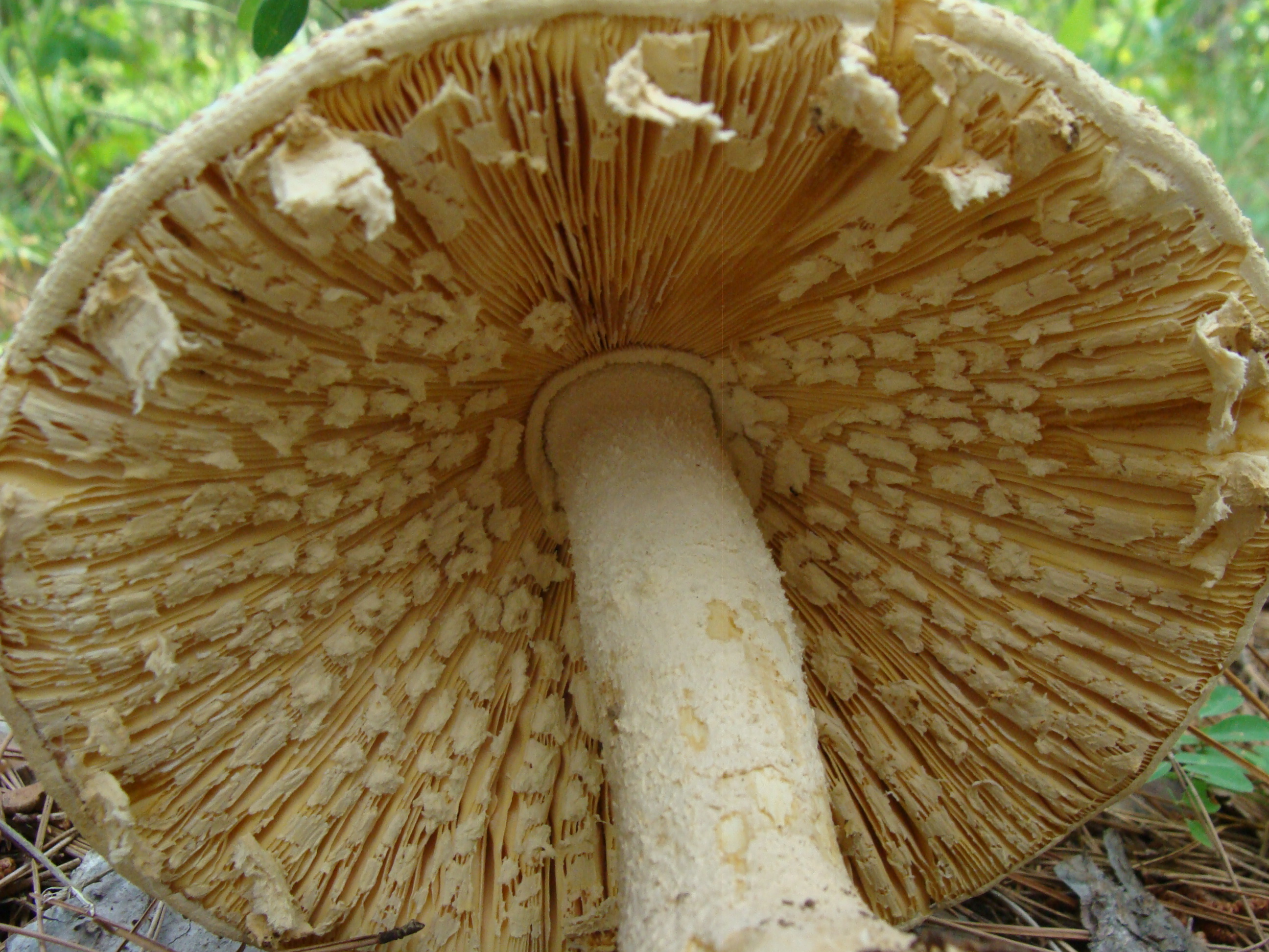 Views of the gills of the mushroom Amanita ravenelii (Berk. & Curt.) Sacc. Specimen found in Hawn State Park, Missouri, USA.